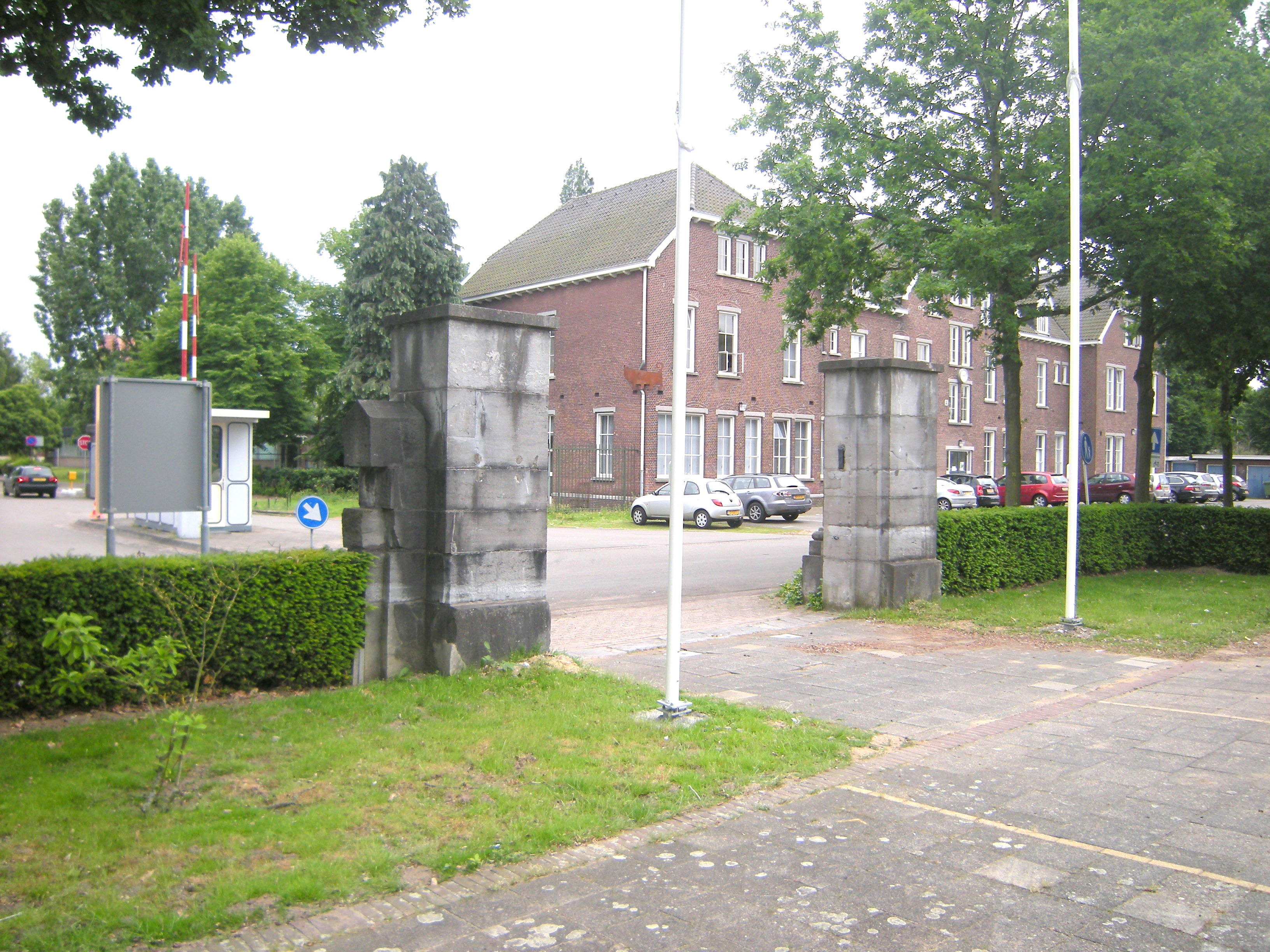 pillars fortress St-Michael